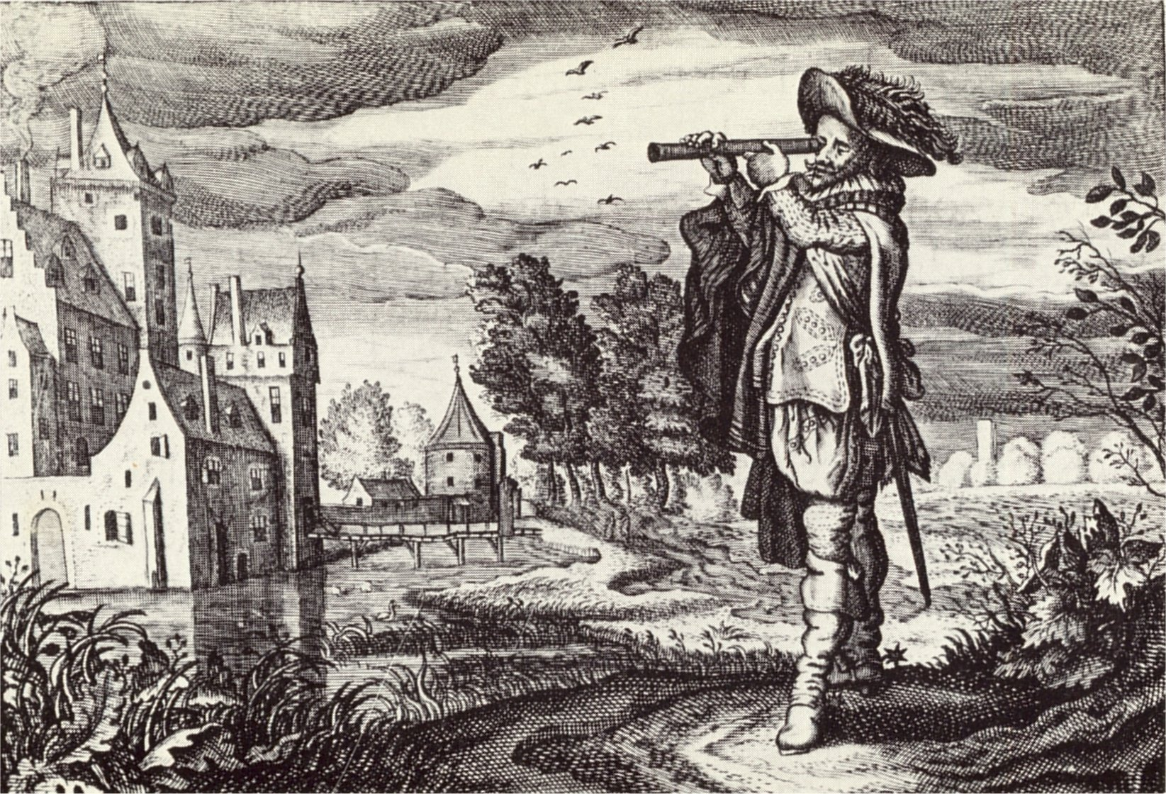 Early depiction of a ‘Dutch telescope’ from the “Emblemata of zinne-werck” (Middelburg, 1624) of the poet and statesman Johan de Brune (1588-1658). The print was engraved by Adriaen van de Venne, who, together with his brother Jan Pieters van de Venne, printed books not far from the original optical workshop of Hans Lippershey.